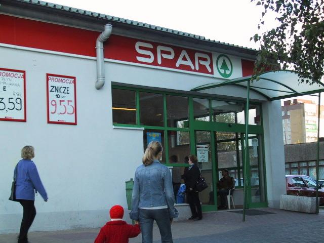 polish market SPAR in Wodzislaw city